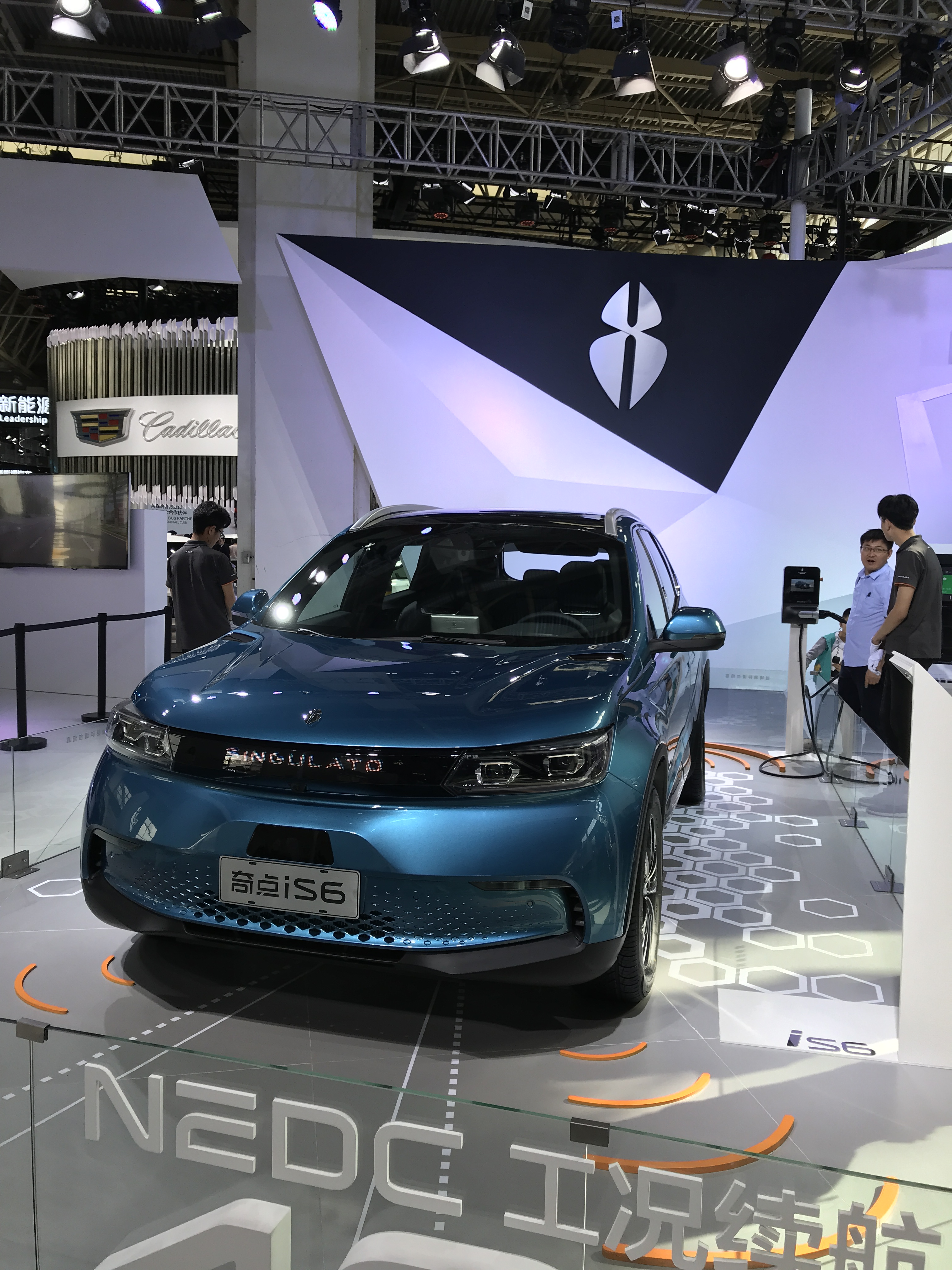 Singulato iS6